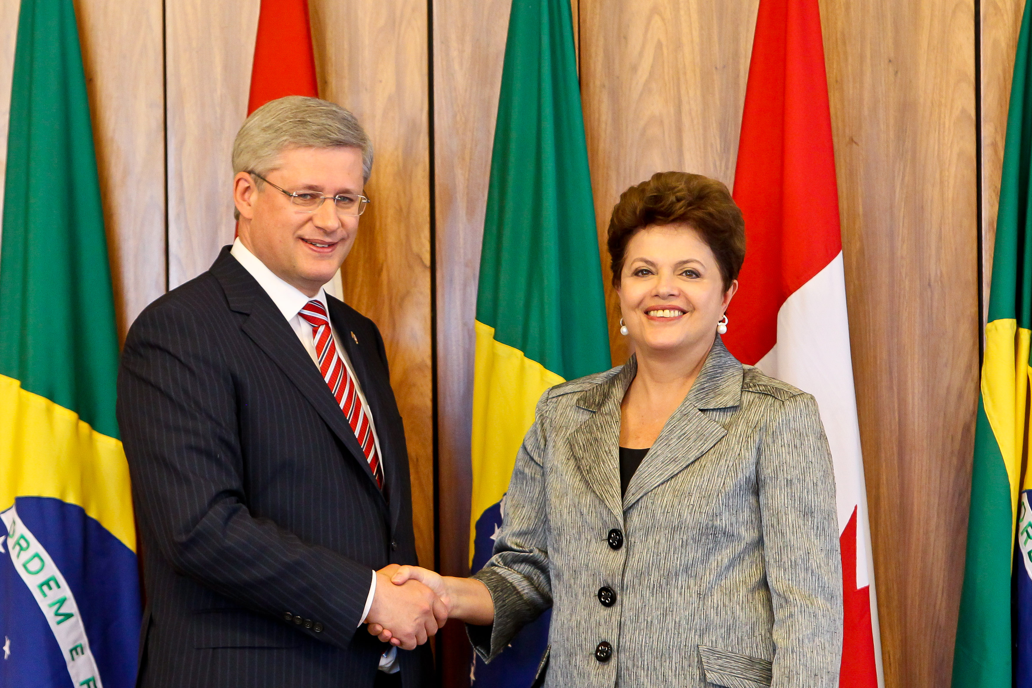 Canadian Prime Minister Stephen Harper and Brazilian President Dilma Rousseff at a signing ceremony in Brasilia, Brazil.